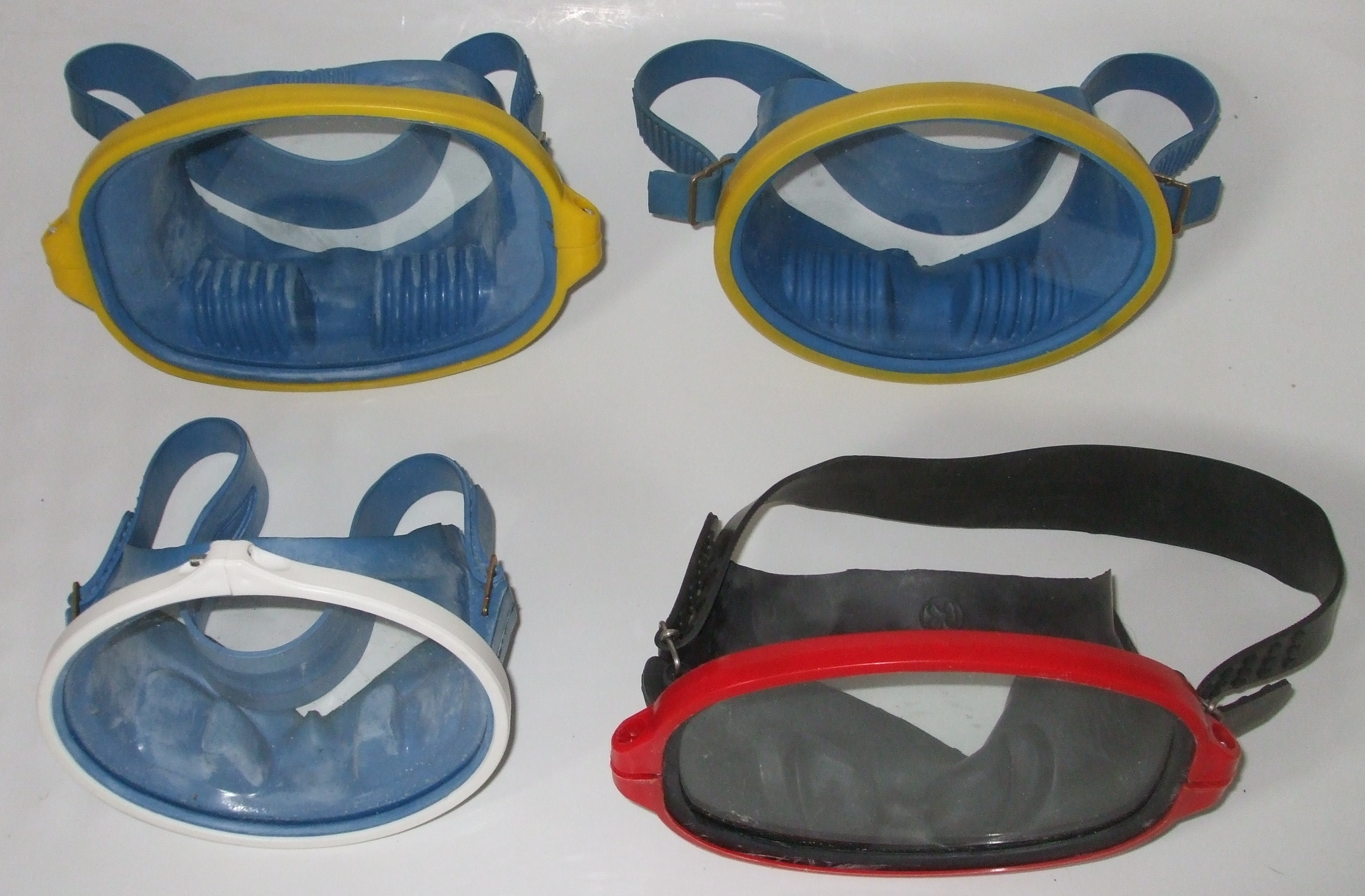 Four classic oval diving masks still in production during the noughties. Clockwise from top left: Spine Laguna mask. Spine Neptun mask. Spine Nimfa mask. Kievguma Akvanavt mask